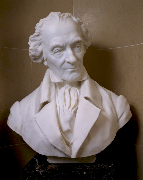 Senate Vice Presidential Bust Collection Marble, Modeled 1891/1892, Carved 1892 Overall (bust) measurement Height: 32.5 inches (82.6 cm) Width: 28 inches (71.1 cm) Depth: 18.25 inches (46.4 cm) Signature (under subject's truncated right arm): HERBERT ADAMS / MDCCCXCII Cat. no. 22.00005.000